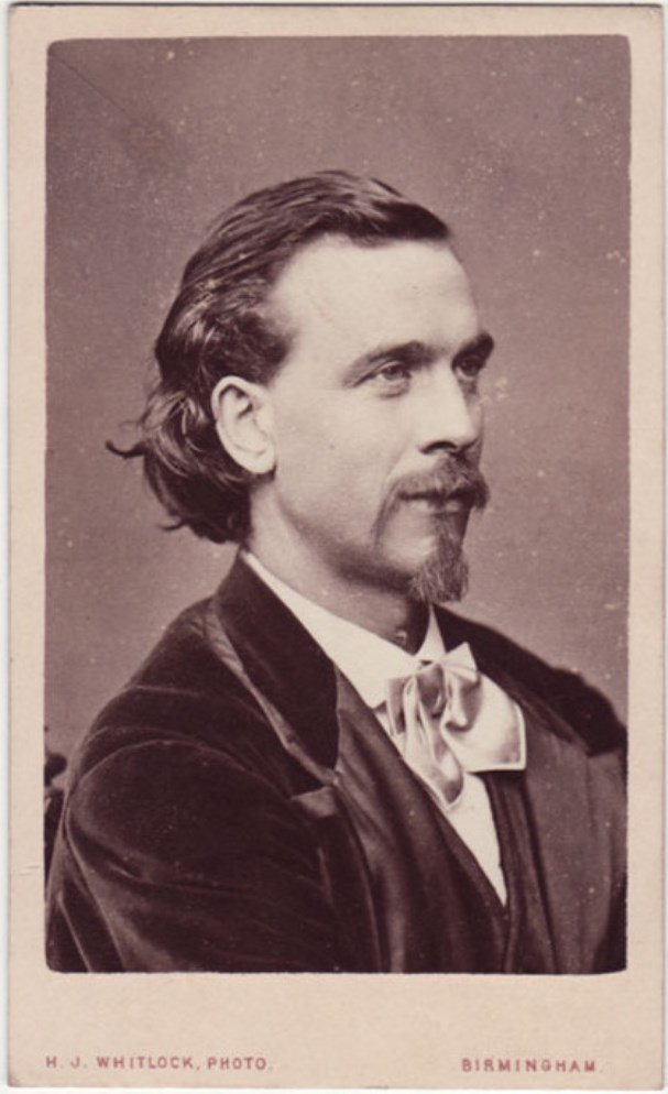 Carte de Visite of Allan James Foley